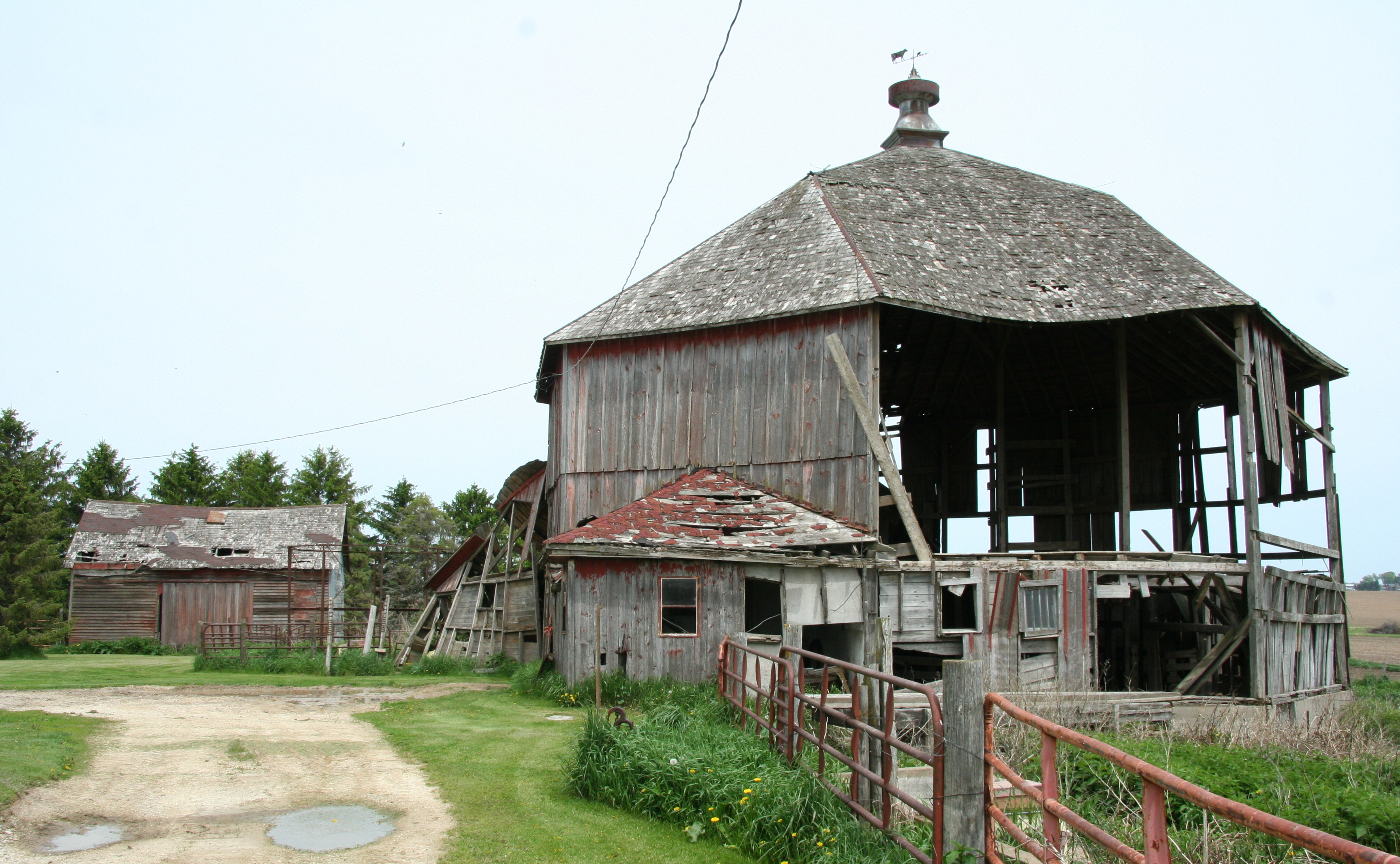 Kinney Octagon Barn, near U.S. Highway 52, north of Burr Oak, Iowa